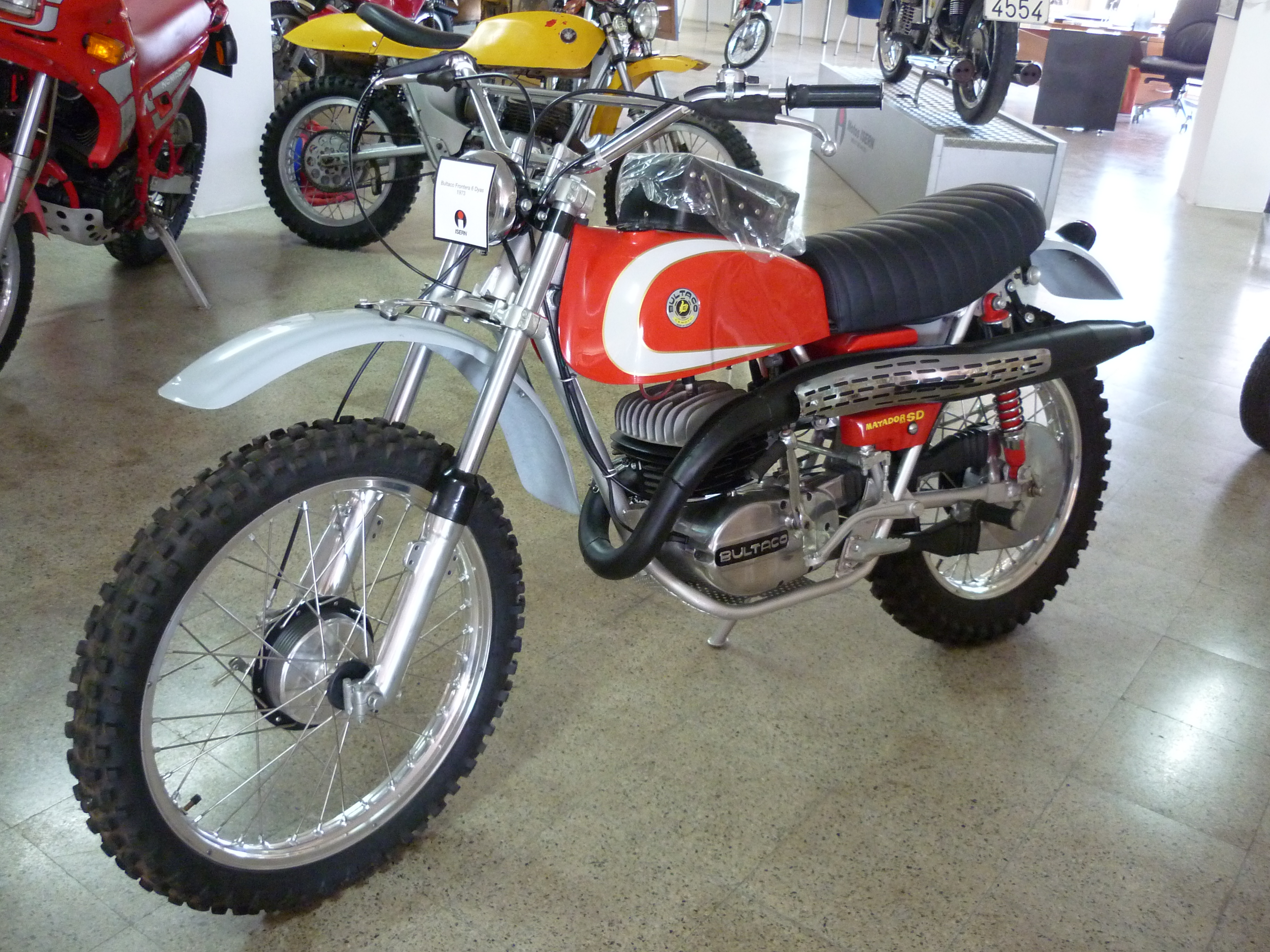 Bultaco Matador 250cc MK5 "Six Days" (1973-1975)